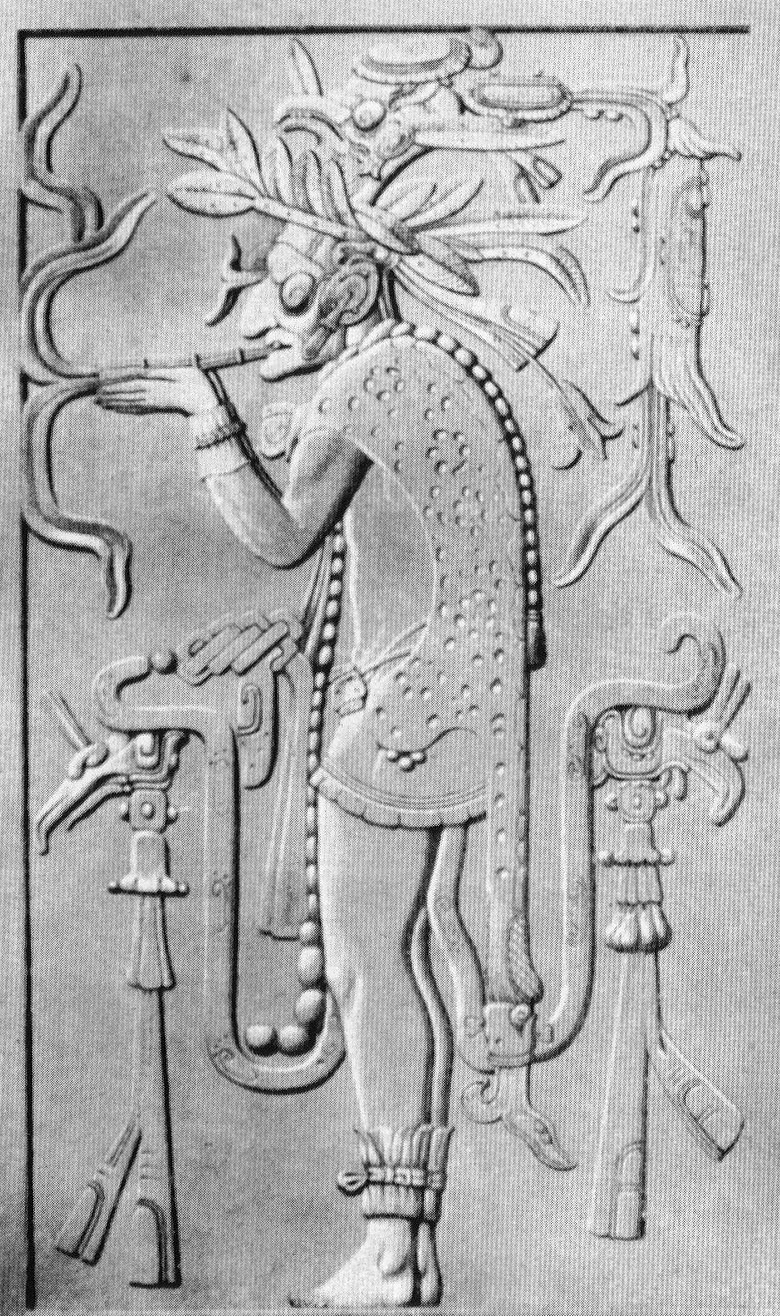 Reproduction of a Maya priest smoking from the Temple at Palenque, Mexico.